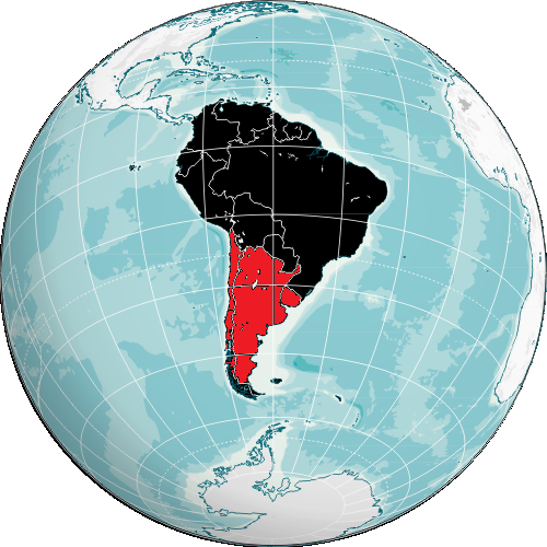 Location of female monasteries of the Benedictine Cono-Sur Congregation.